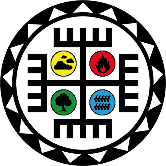 The four elements (air, fire, water, earth) in the "Hands of God"